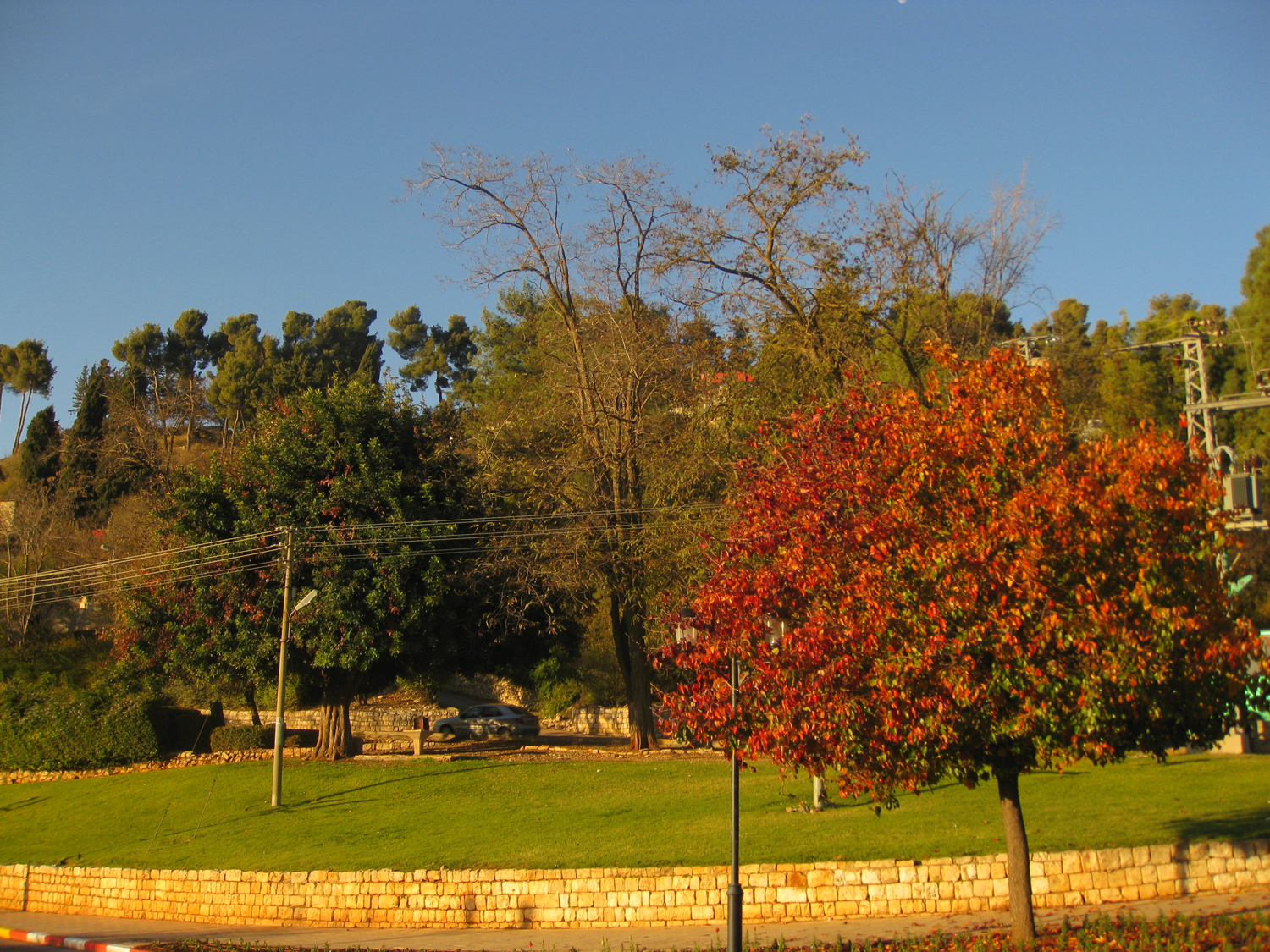 In this picture you can see the beauty of autumn red tree. The tree is located opposite the central bus station in Safed.